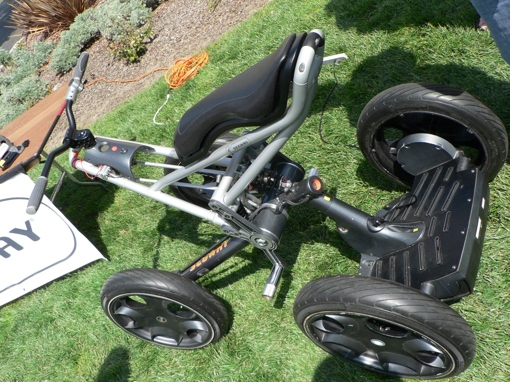 Segway Concept Centaur